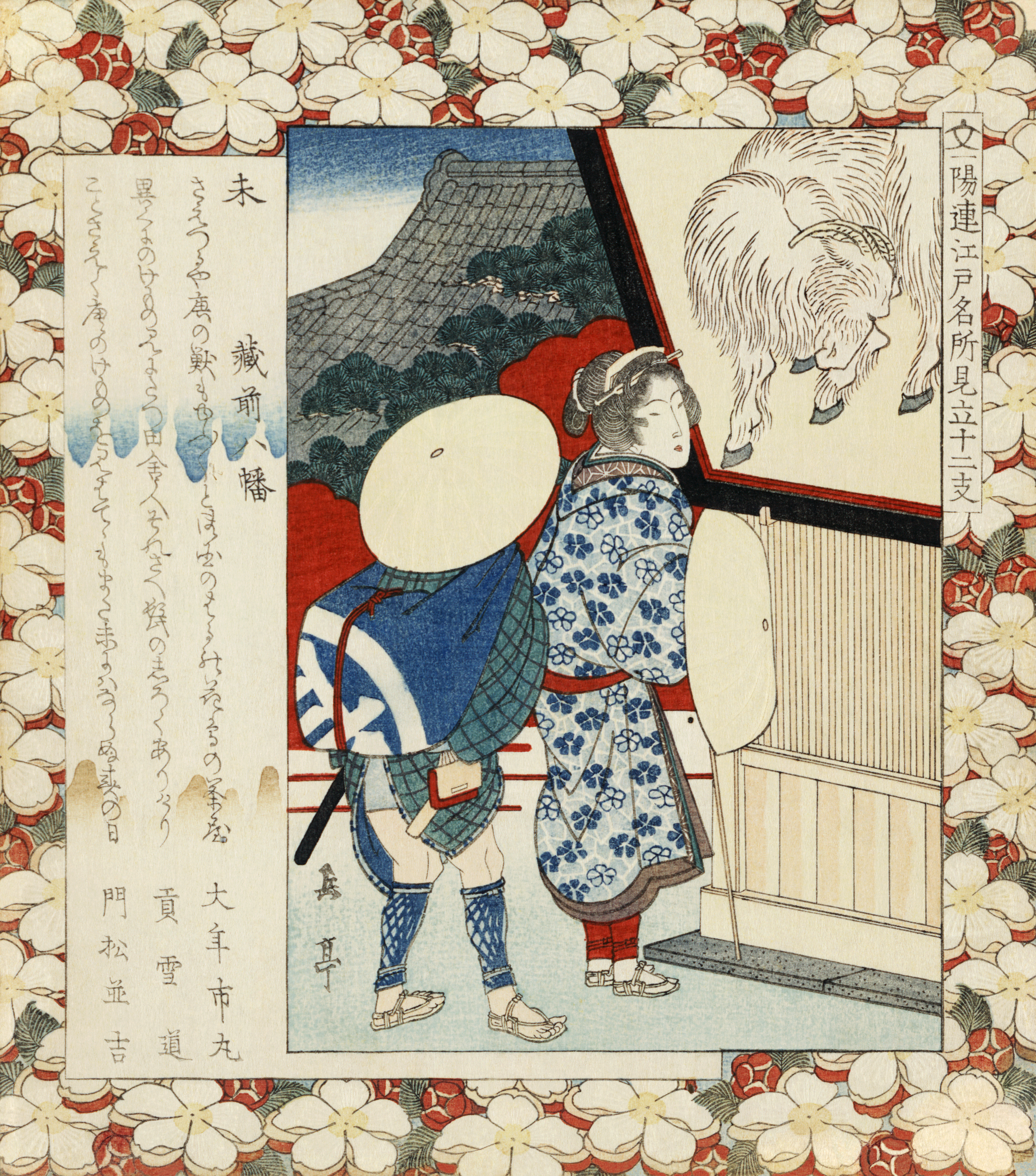 Hitsuji kuramae hachiman (translation: "Year of the ram (or sheep): Kuramae Hachiman Shrine.") Woodcut